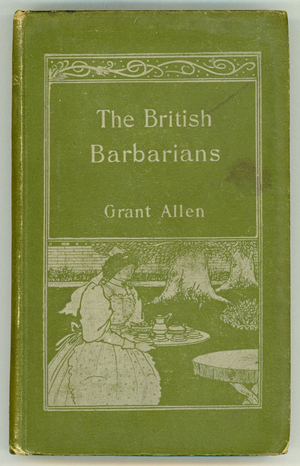 Cover art for the 1895 first edition of The British Barbarians